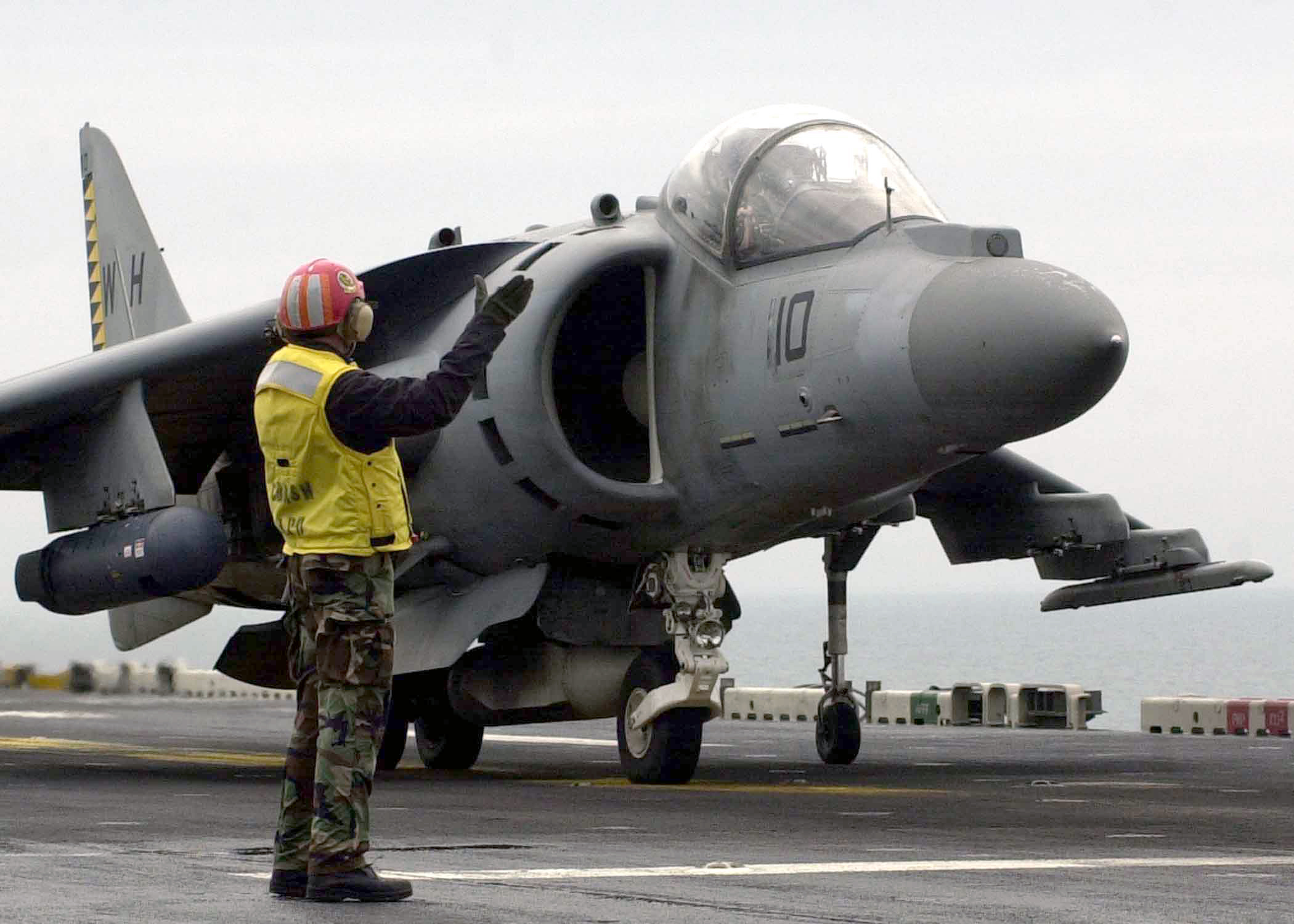 At sea aboard USS Bataan (LHD 5) Feb. 24, 2003 -- Aviation Boatswain’s Mate 1st Class William Lemmons uses hand signals to communicate with the pilot of an AV-8 “Harrier” assigned to the “Tigers” of Attack Squadron Five Four Two (VMA-542). Bataan and embarked U.S. Marines are part of Amphibious Task Force-East (ATF-E) deployed in the Arabian Gulf in support of Operation Enduring Freedom. U.S. Navy photo by Photographer’s Mate 3rd Class John Taucher. (RELEASED)